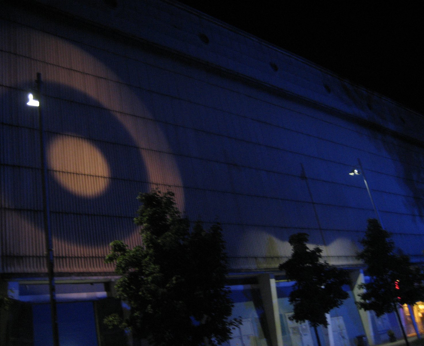 Since 2007 Berlin's Tresor club resides in the decommissioned southern tract of the Heizkraftwerk Berlin-Mitte in Köpenicker Straße.